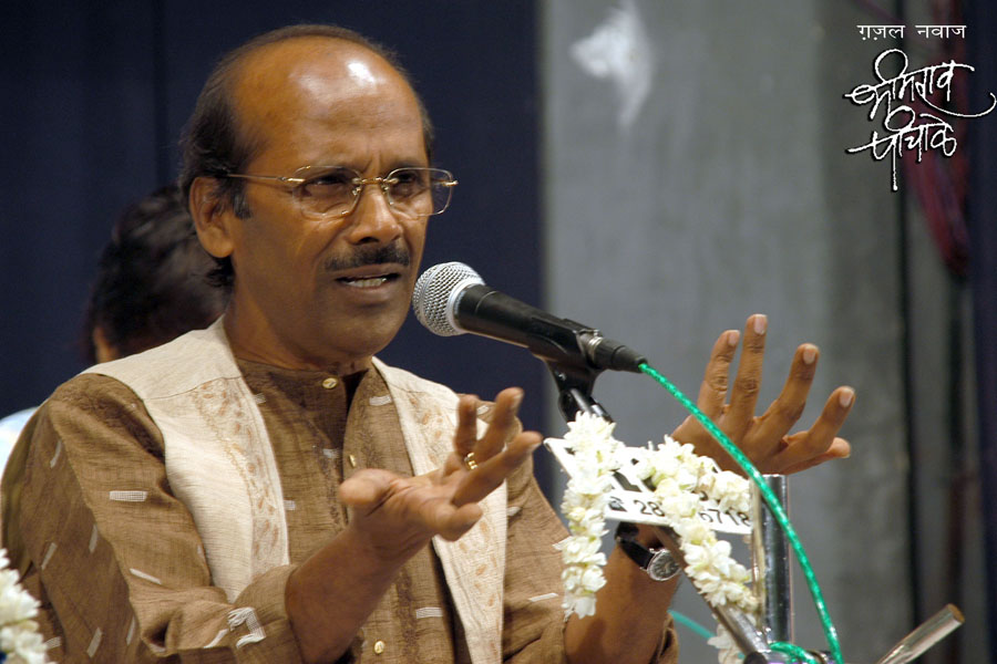 Lang Marathi)